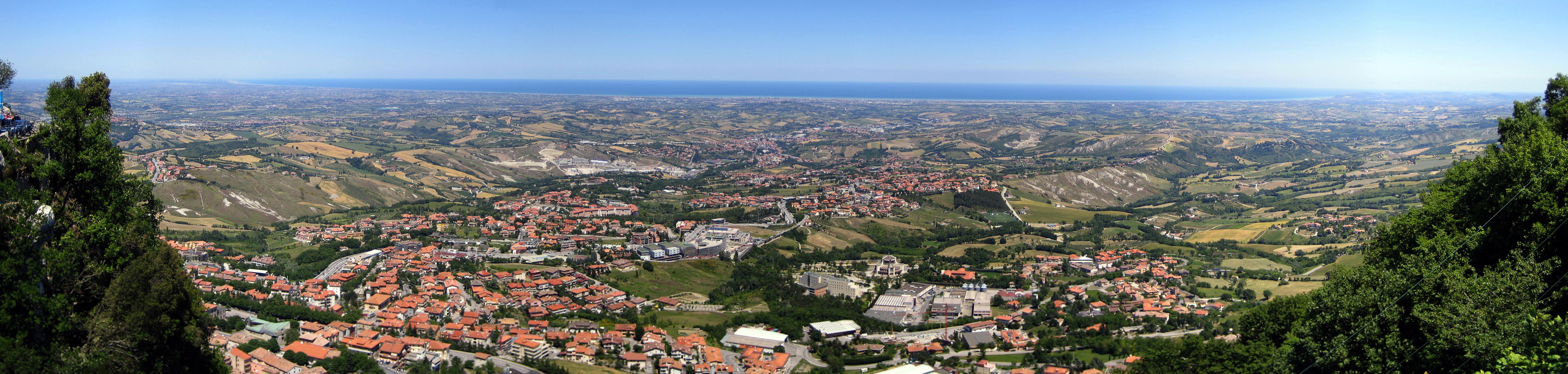 C. 90° panoramic view from San Marino City direction Adriatic Sea (NE) over San Marino and Romagna region (Italy). On the coastline the area between Cervia and at least Gabicce Mare, with Cesenatico, Rimini in between is visible. In the foreground, San Marino communities Borgo Maggiore, Valdragone, Cailungo, Domagnano, Serravalle and others.